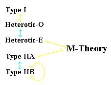 A diagram of string theory dualities.